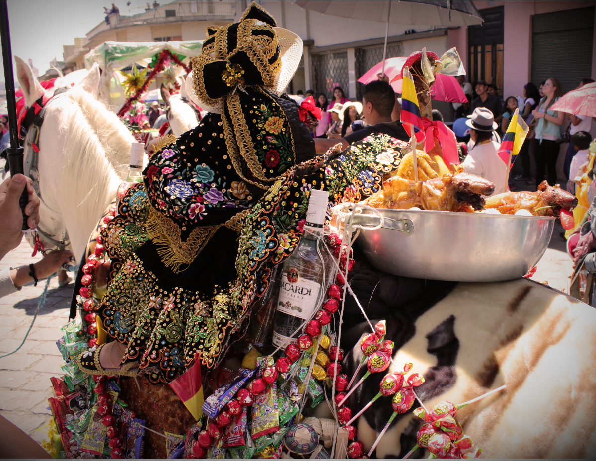 Child dressed as mayoral in horse during the 2013 Pase del Niño Viajero in Cuenca, Ecuador.